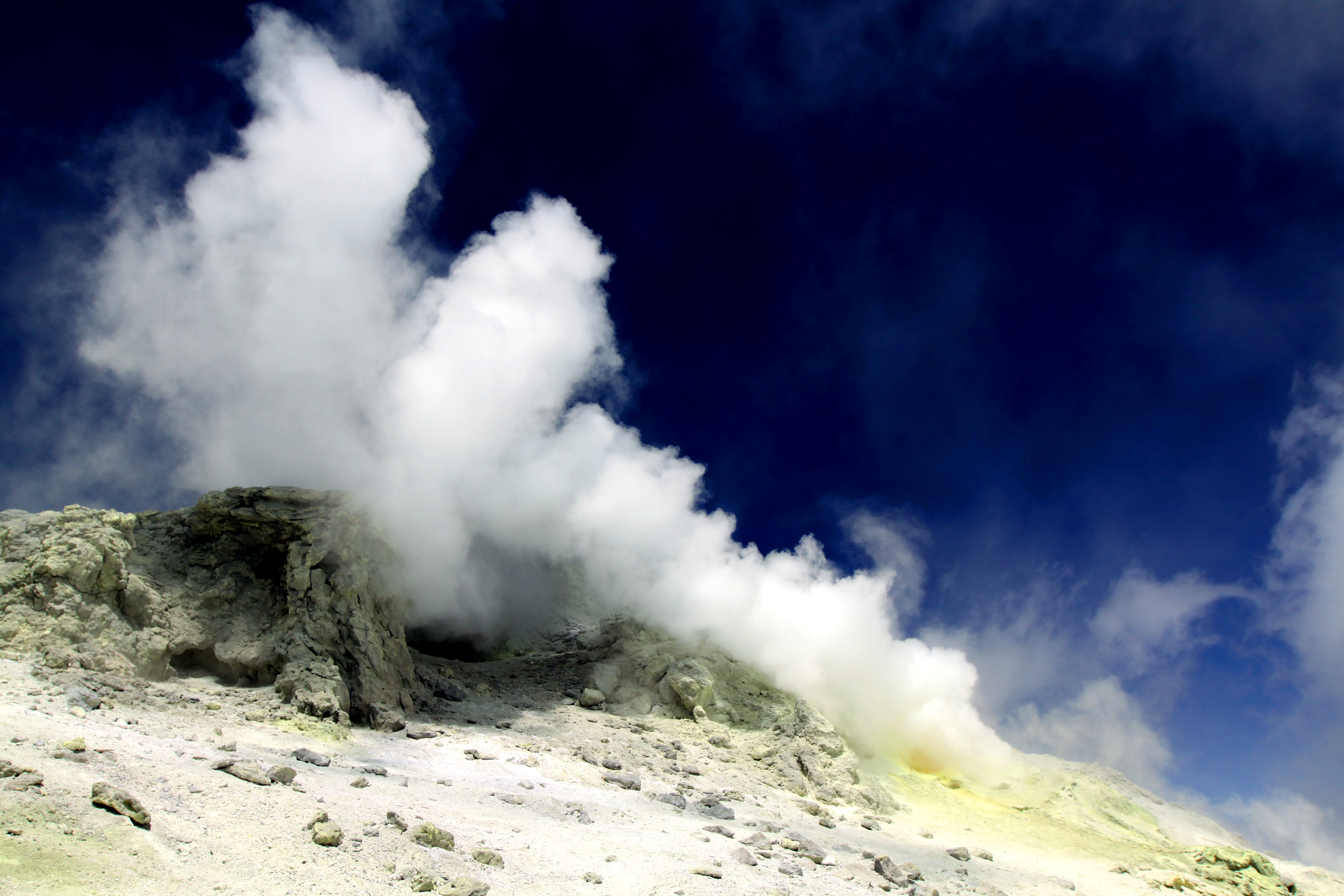 Damavand mountain, the south face, near the summit, sulfuric deposits - August 16, 2018 Photo by: Safa Daneshvar